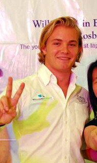 Nico Rosberg in Bangkok to promote the Oris Nico Rosberg Limited Edition Watch